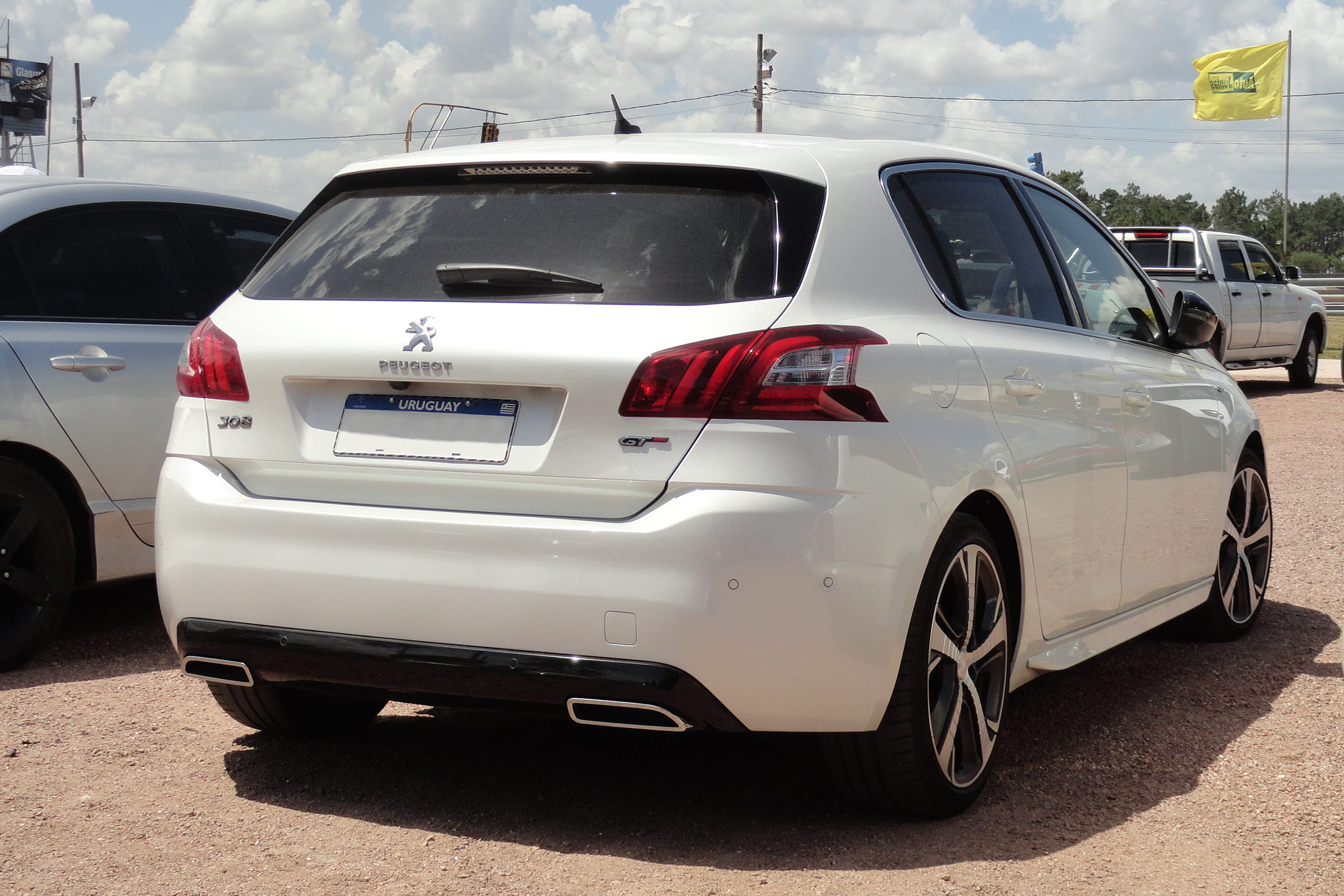 Peugeot 308 GT Mk2